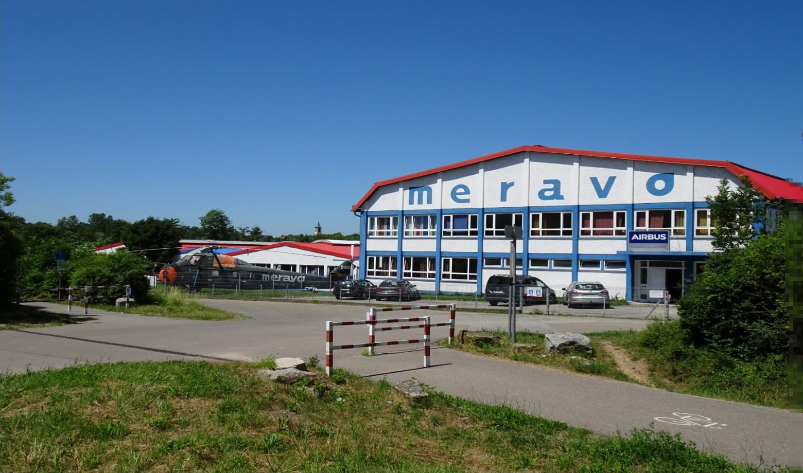 Look at the helicopterservice meravo oedheim